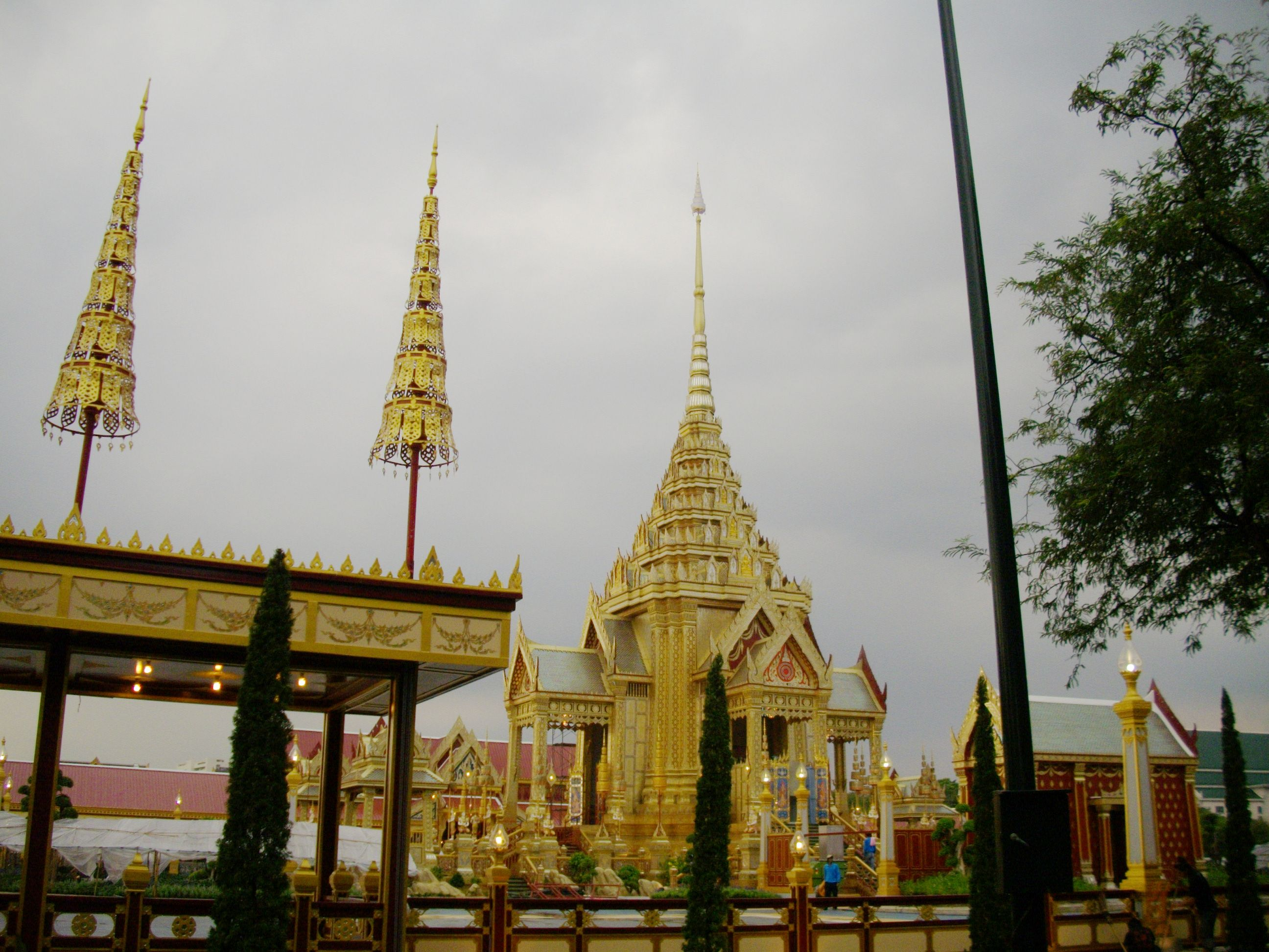 The Royal Crematorium ("Phra Meru") at Sanam Luang, view from southeast side. This building was used in the Royal Cremation of Her Royal Highness Princess Galyani Vadhana, King Rama IX's Sister, in 15 November 2008.